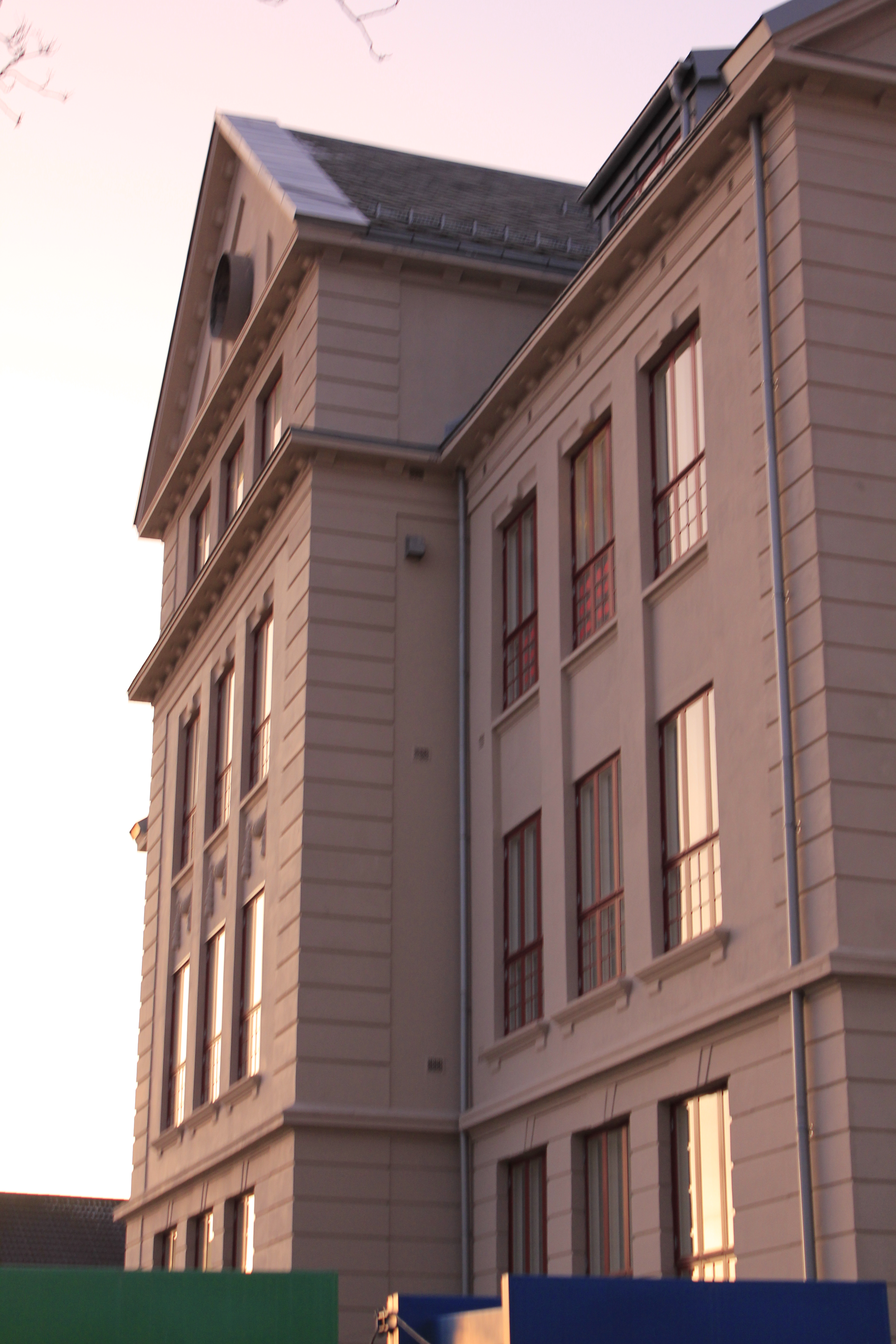 Gyllenborg Primary School in Tromsø, Norway